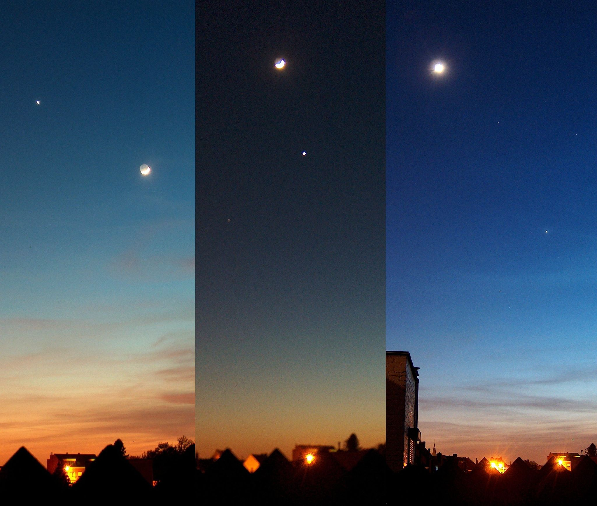 Three consecutive days of close conjunction between the Moon and Venus. Tanen on 19, 20 and 21 of April 2007 in the evening.